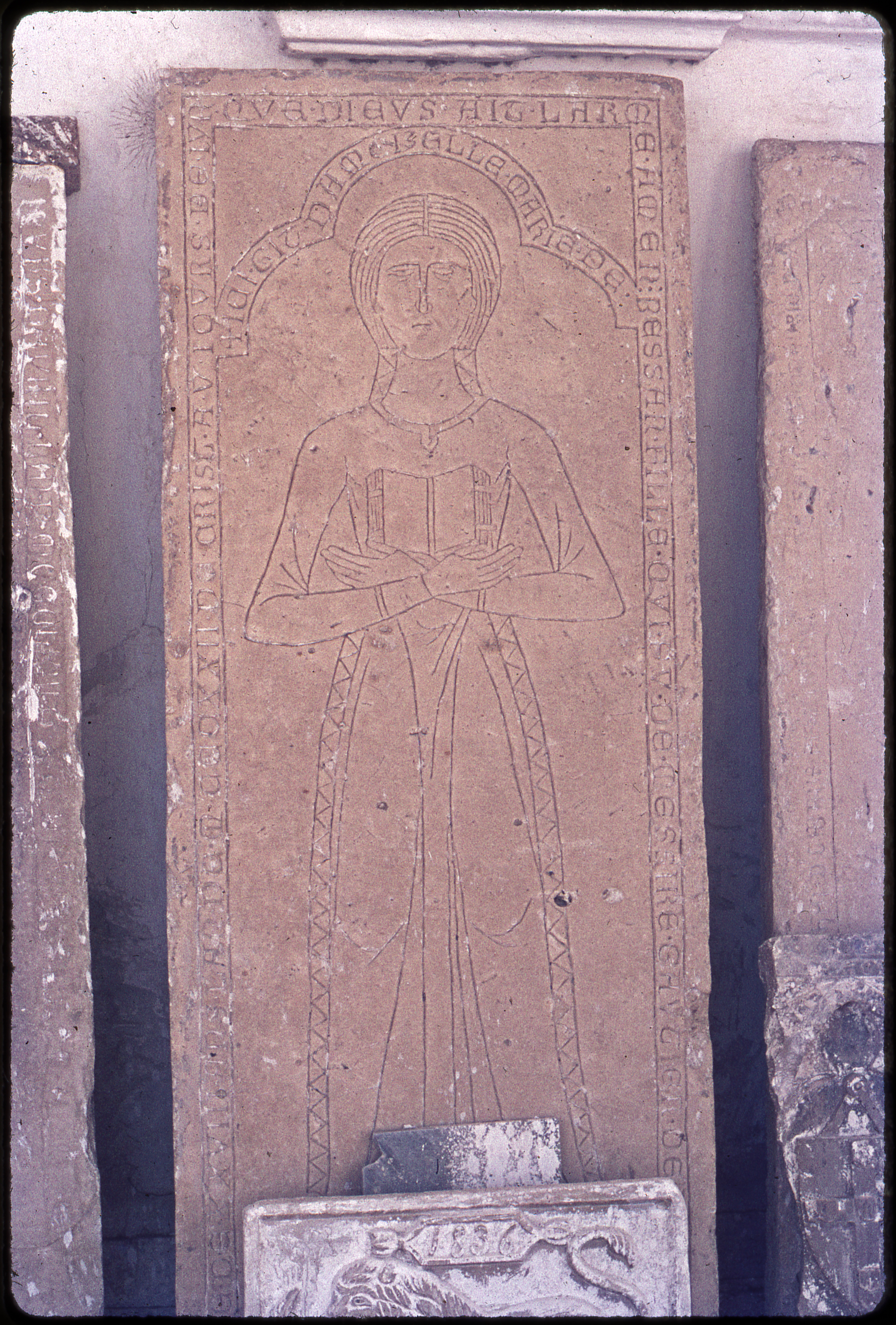 Notre Dame de Tyre, Nicosia, medieval tomb slab as documented in 1974